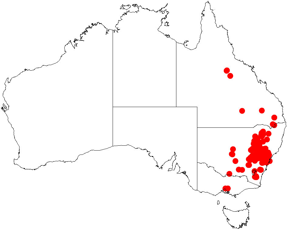 Acacia uncinata occurrence data from Australasian Virtual Herbarium downloaded from on December 8 2018